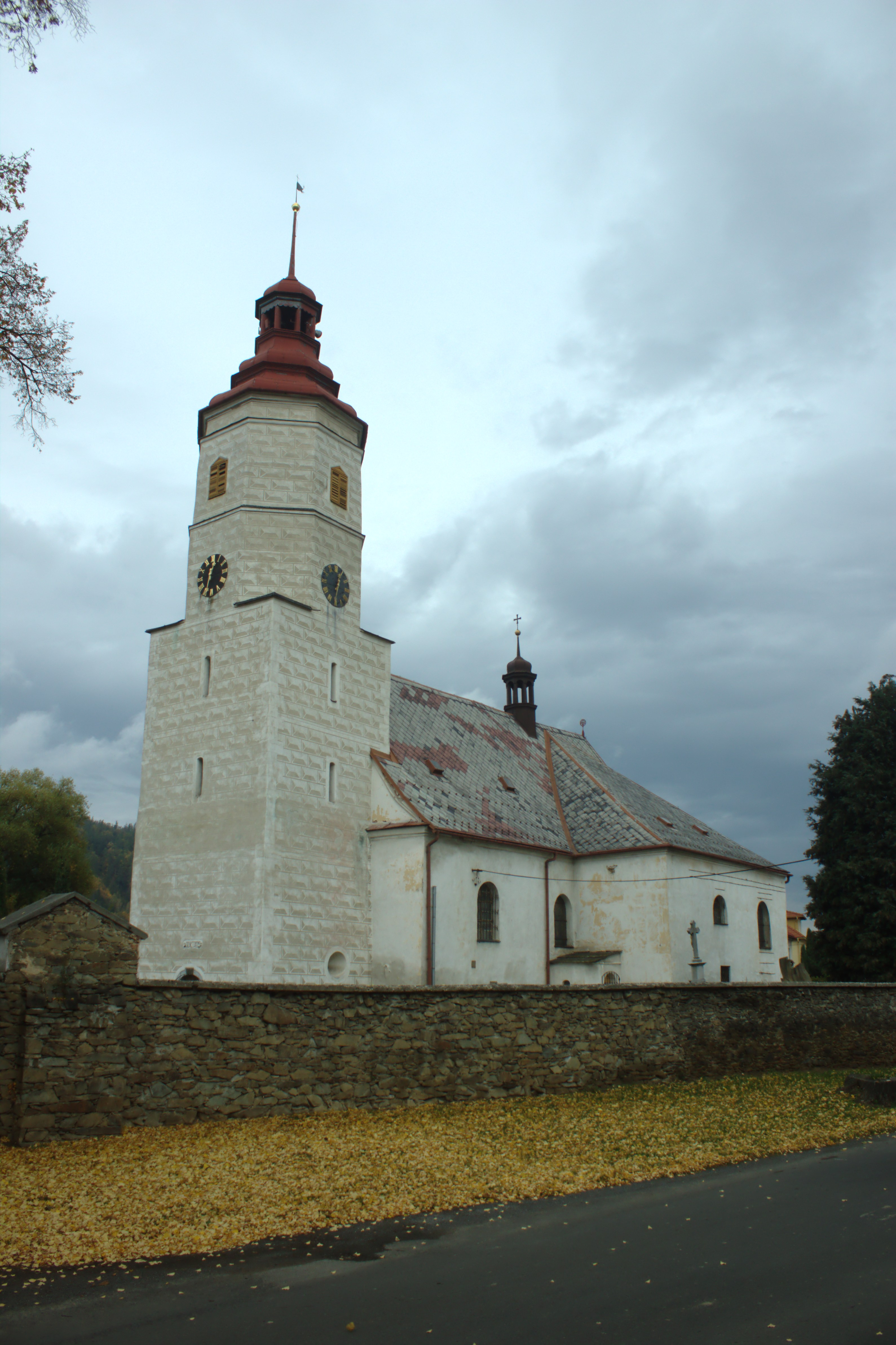 The assumption church in Brantice, Moravian-Silesian Region, CZ